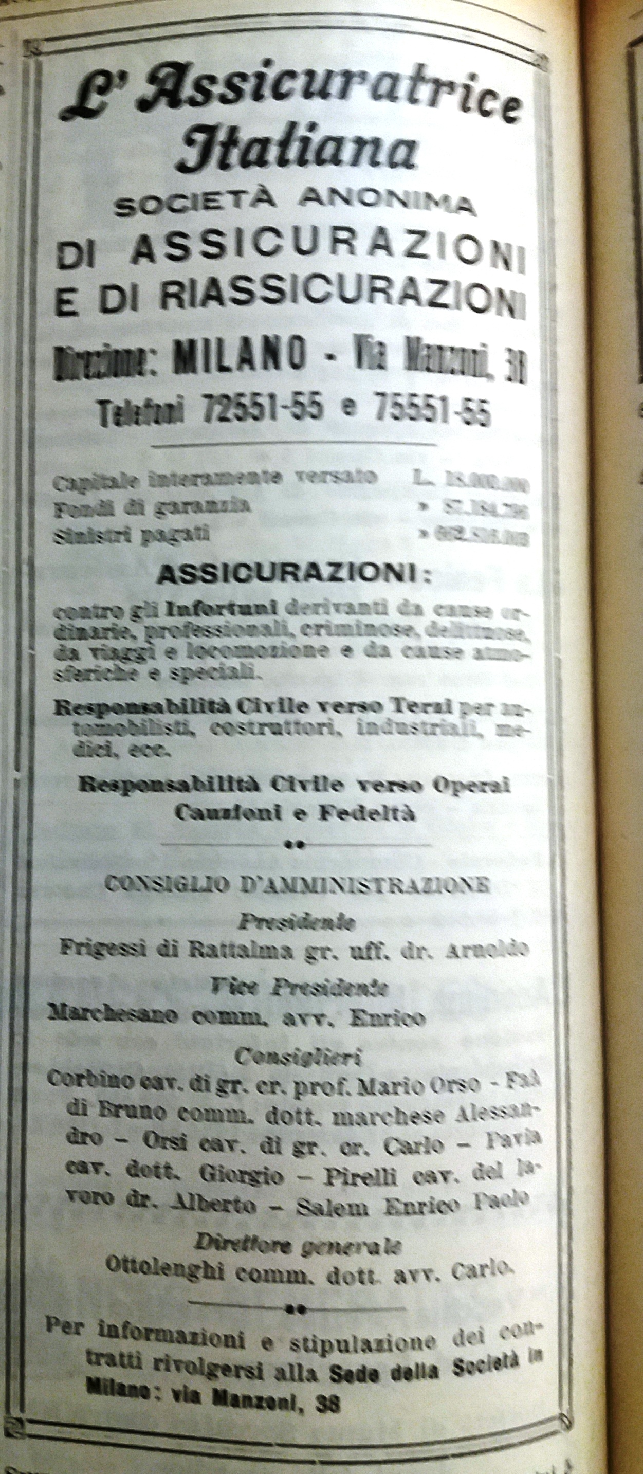 L'Assicuratrice Italiana in 1936 Guida Savallo of Milan